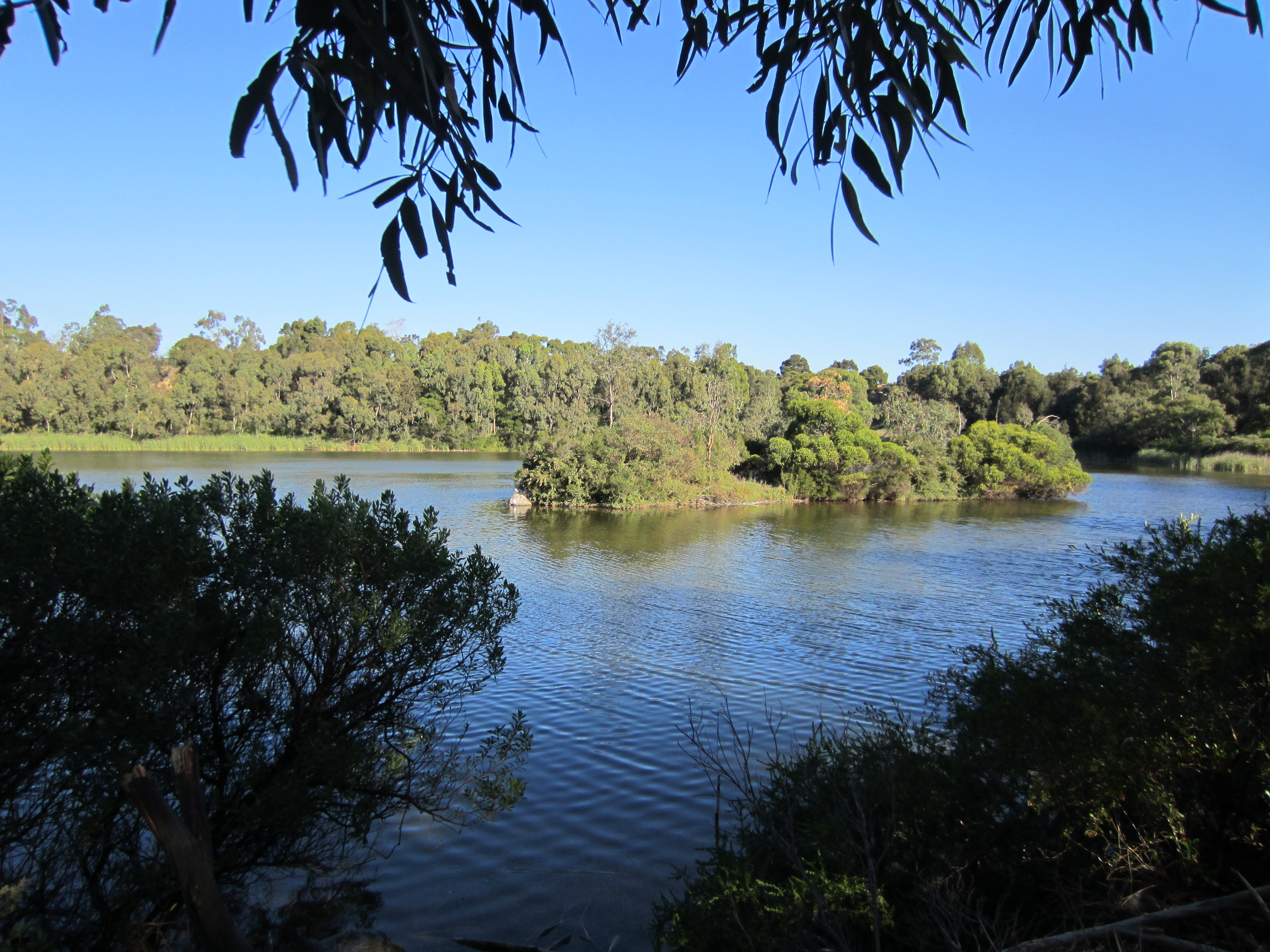 Newport Lakes, South Lake, Victoria